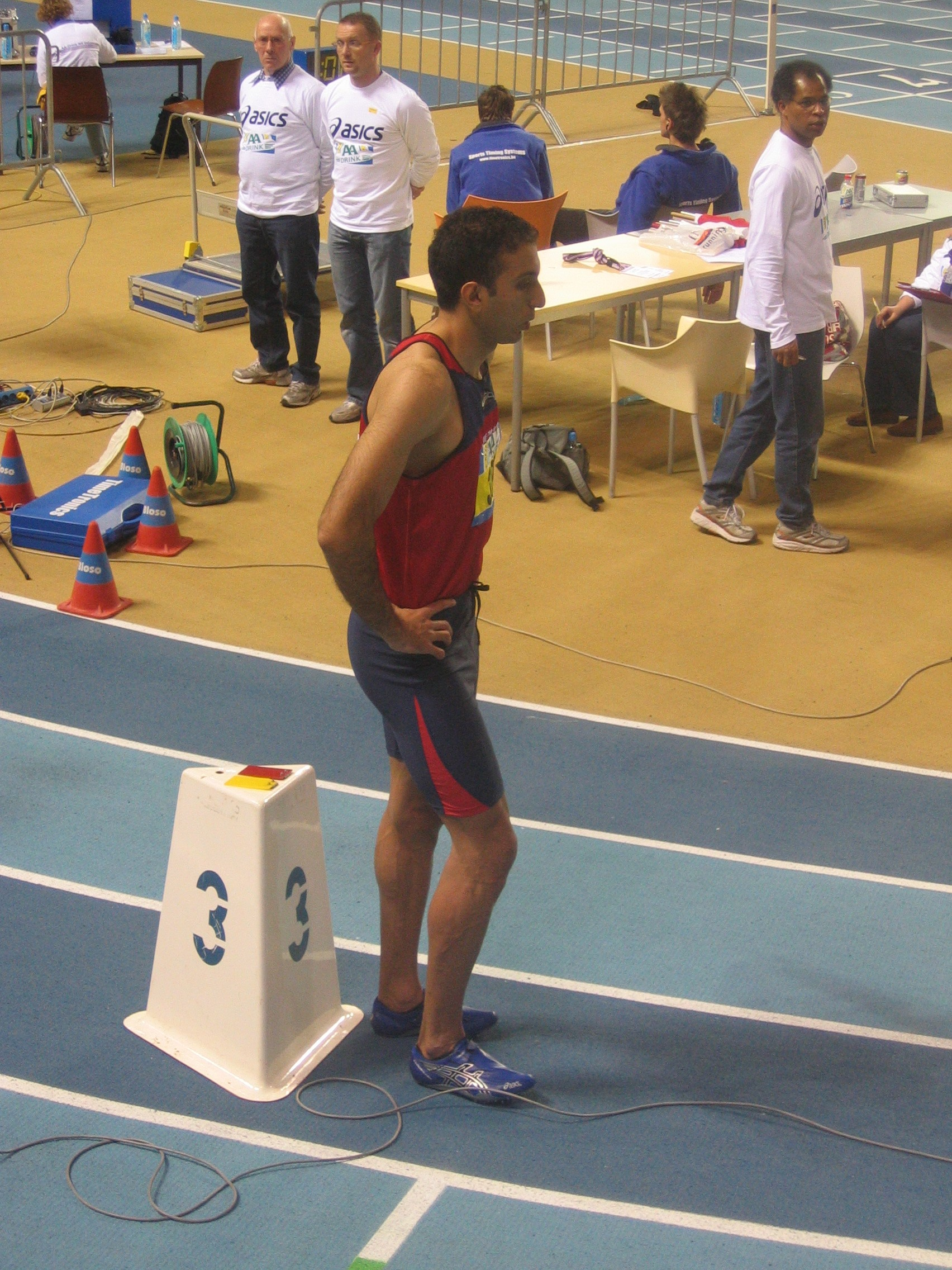 Youssef el Rhalfioui at Dutch indoor championships '08, Gent